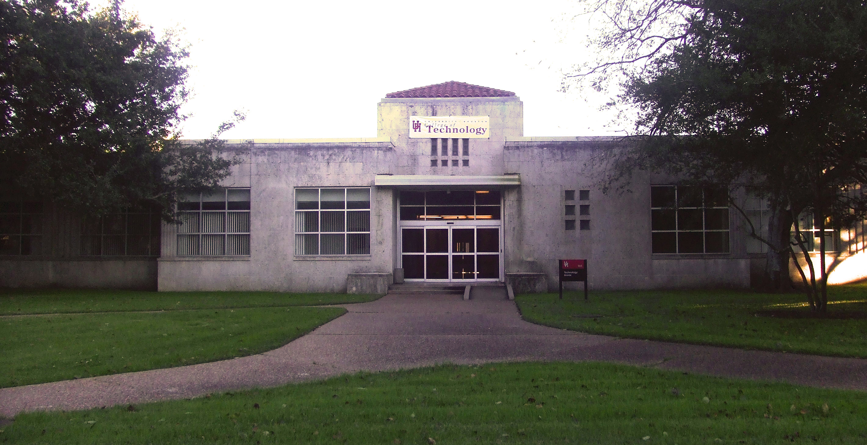 This is the University of Houston's College of Technology Annex building.